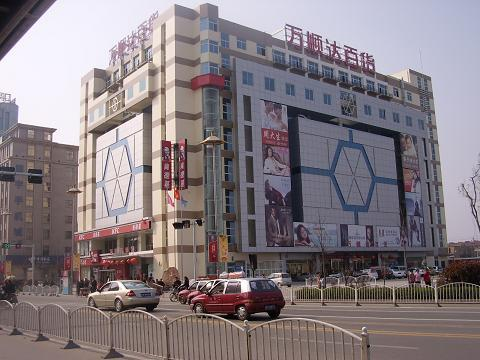 China